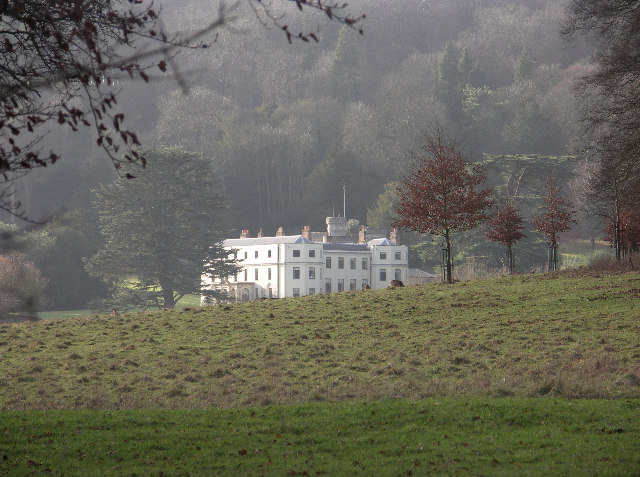 Wormsley. Photograph taken from footpath in SU7494 – there is no public access to SU7394. Sir Paul Getty, the American billionaire and philanthropist, bought the 18th century house and 2500 acre estate in 1981, and lived here until his death in 2003.